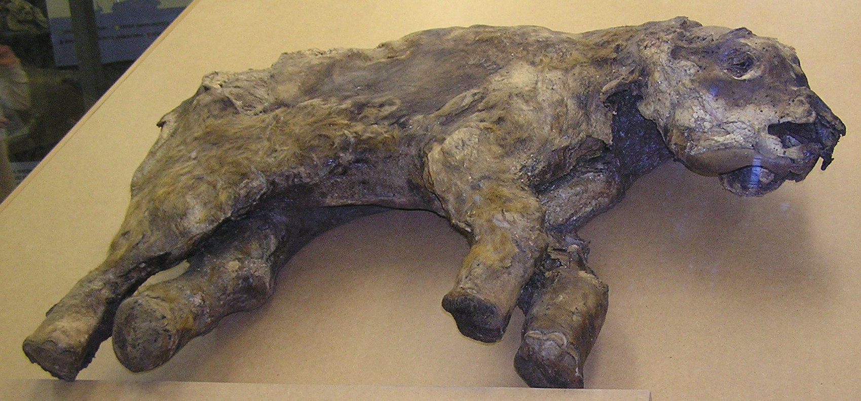 Mammuthus primigenius calf nicknamed Mascha.